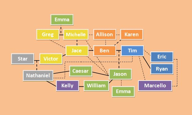 A chart showing the relationships of some of the main characters. Bold lines are romantic, bold dotted are family ties, and light dotted mean platonic. Obviously not every relationship is represented, or Marcelo would just look like a spider's web.